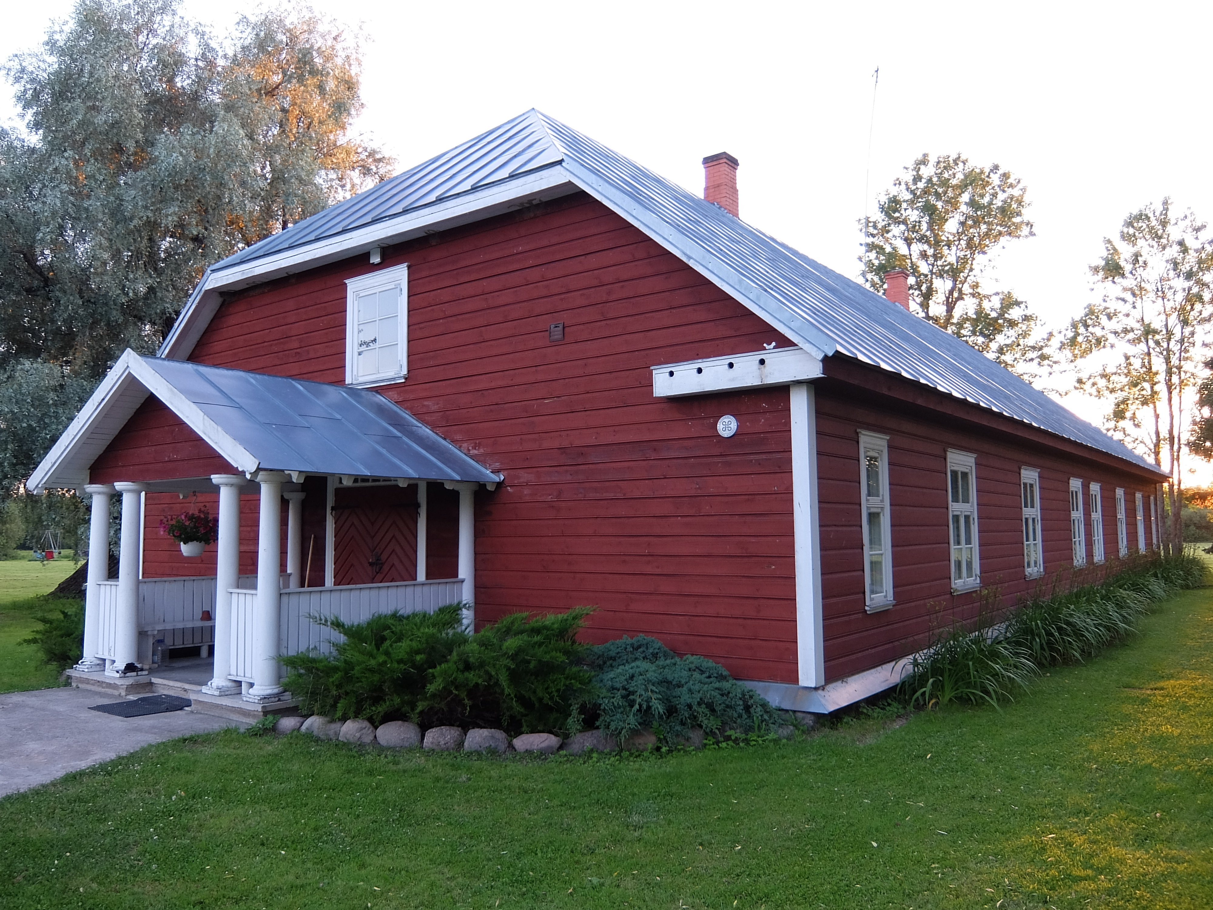 Vadi school